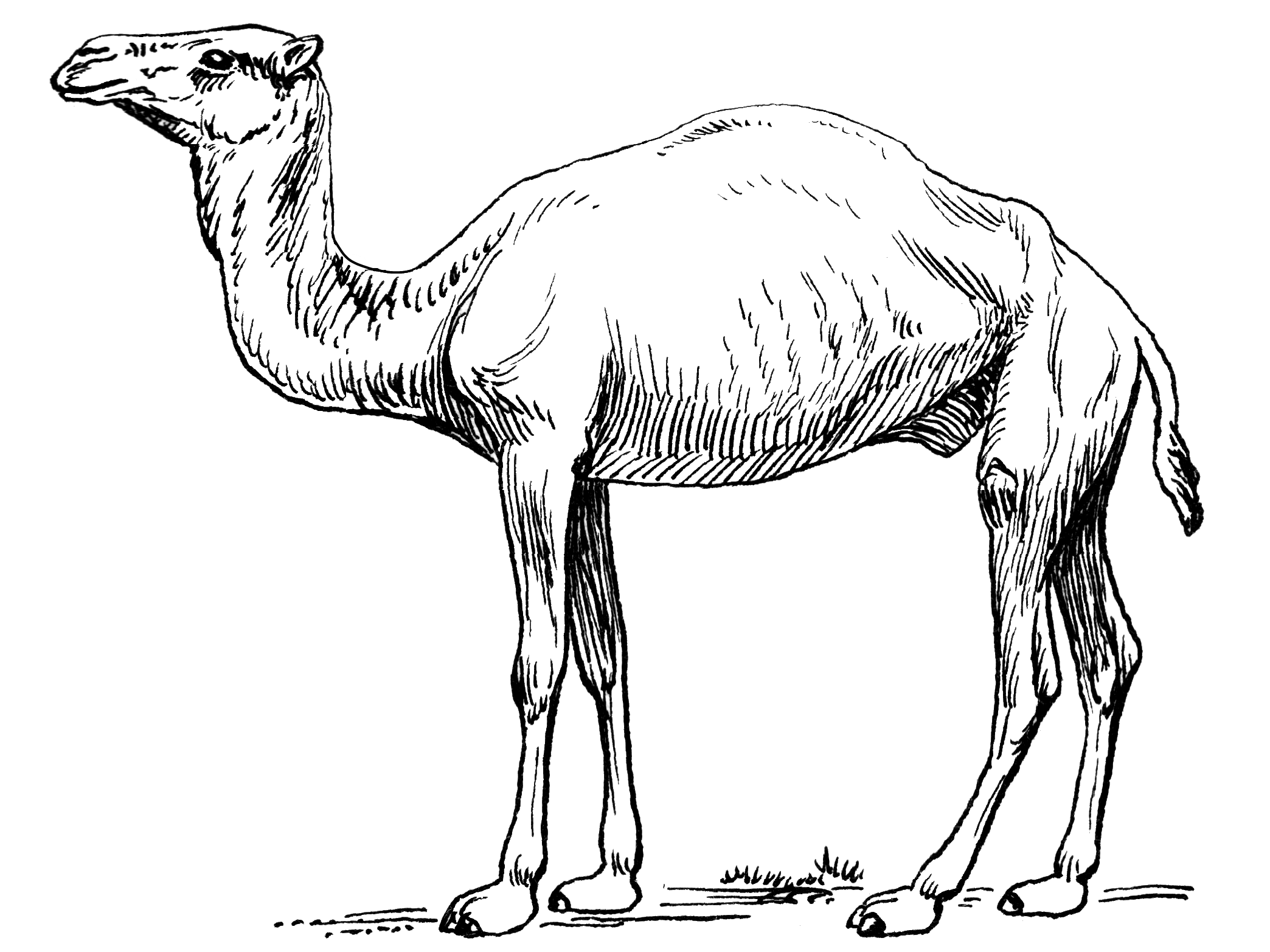 Paracamelus